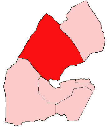 Map of the Djibouti showing Tadjourah Region